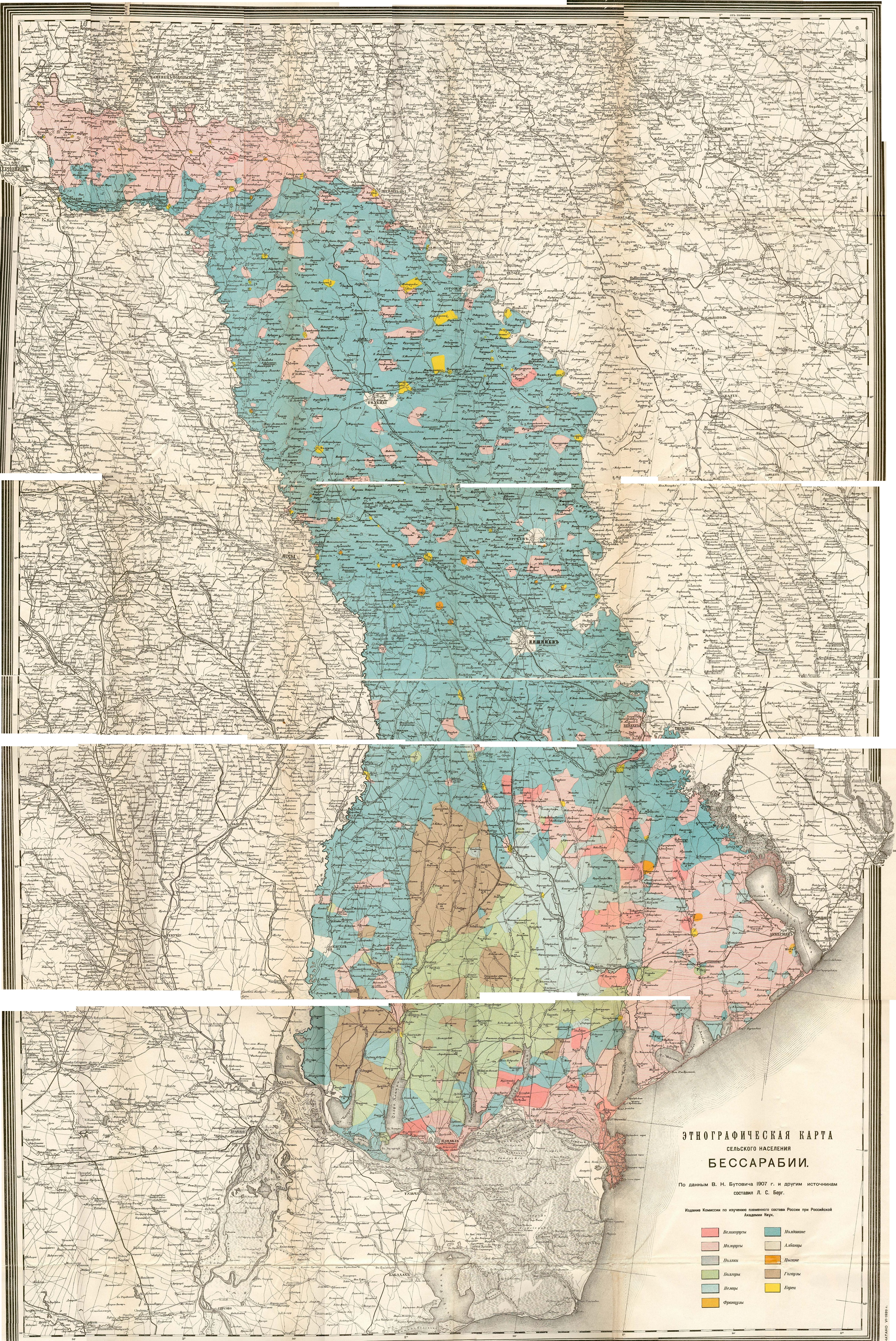 1907 Ethnograph map of the Govern